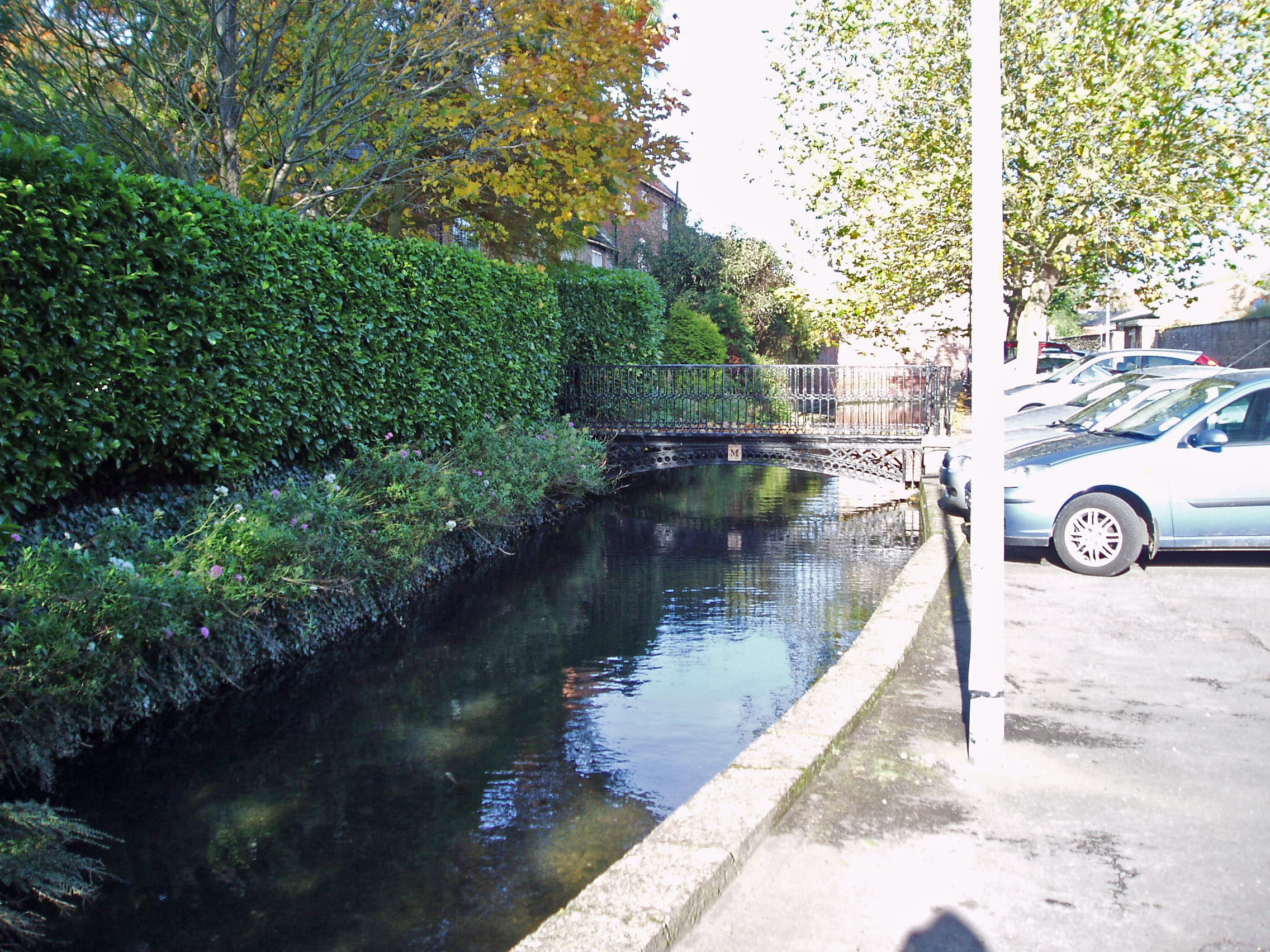 Bourne Eau opposite the Abbey Church in Bourne, Lincolnshire. The iron bridge is dated 1832.